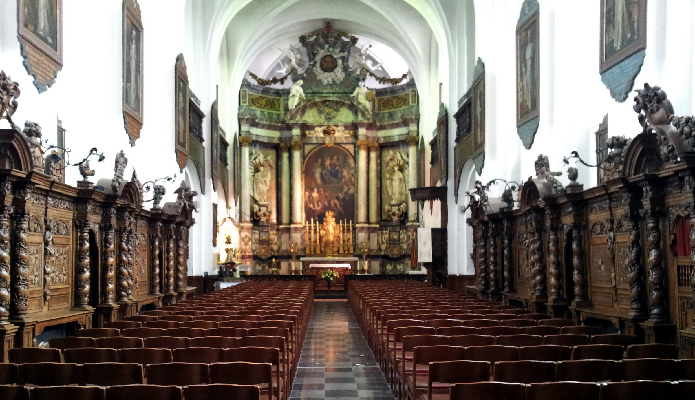 Interior of Basilica of Our Lady of Kortenbos (Basiliek van Onze-Lieve-Vrouw van Kortenbos), a few miles Northeast of Sint-Truiden, Belgium. View towards the East.